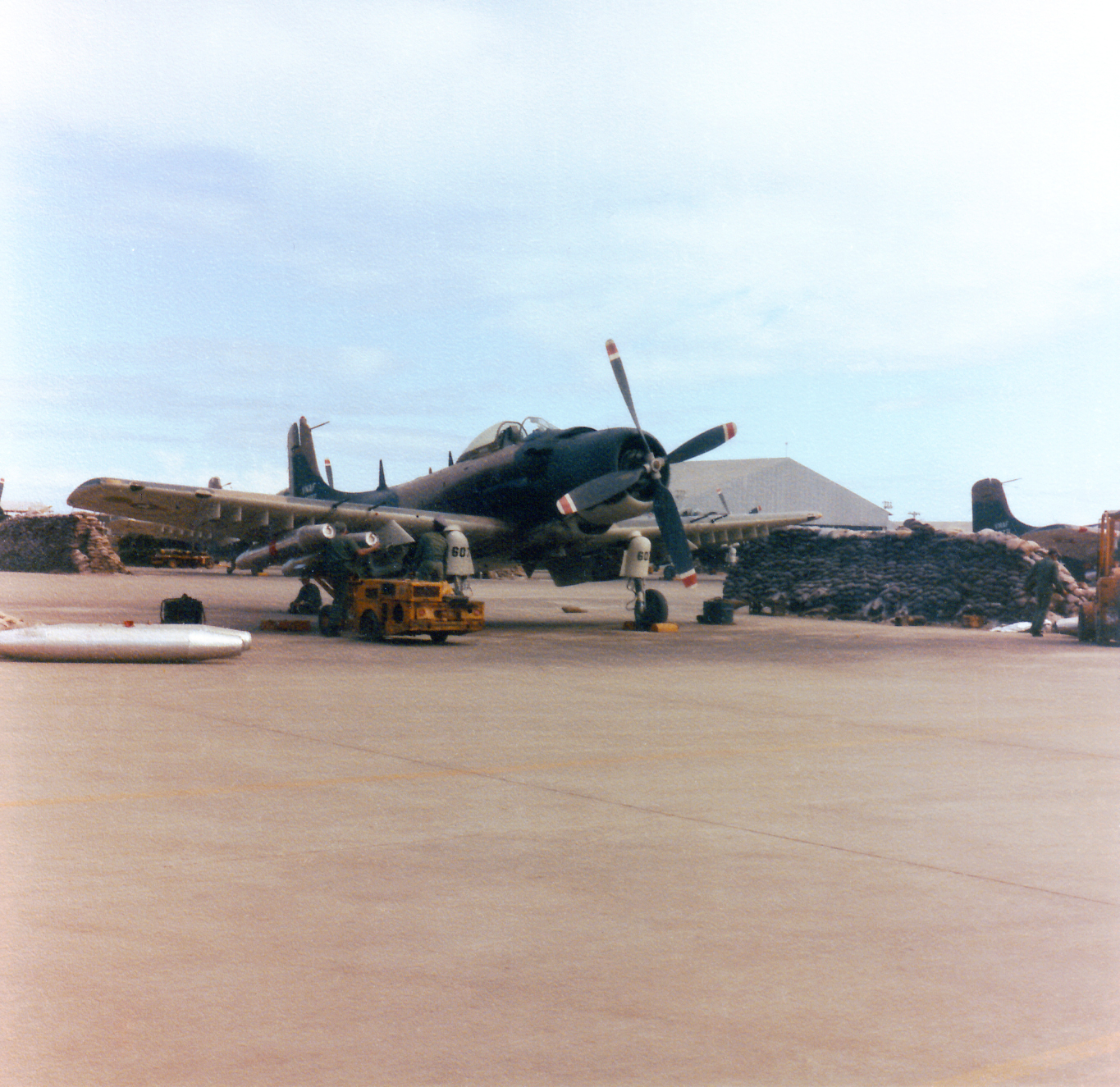 Skyraider of the VNAF 516th Fighter Squadron being loaded with napalm at Danang AB, in May 1967.